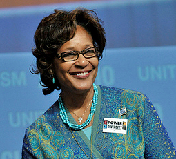 Arlene Holt Baker, newly re-elected AFL-CIO Executive Vice President, after speaking at the AFL-CIO Quadrennial Convention in Pittsburgh, Pennsylvania, on September 16, 2009